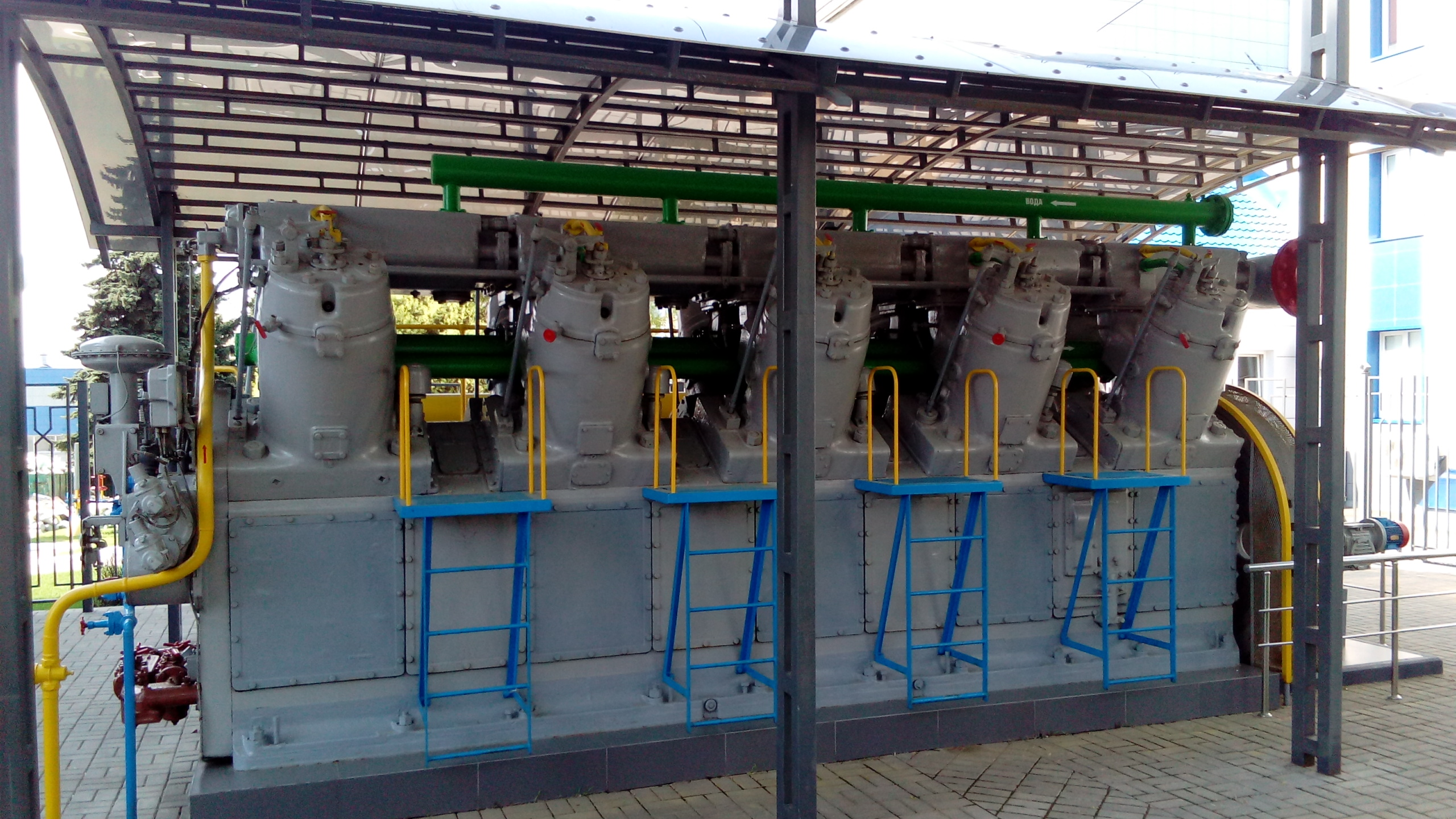 24 C4B-14 gas engine compressors were supplied by The Cooper Bessemer to the USSR in 1945-1946 for use on Saratov - Moscow gas pipeline.